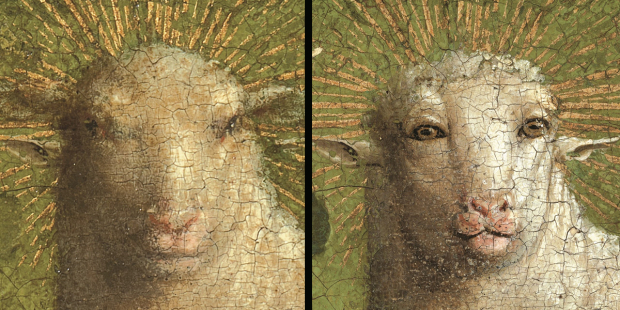 Detail of the Ghent Altarpiece before and after restoration